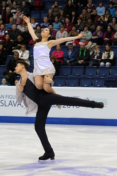 Celia Robledo and Luis Fenero - 2016 European Championships